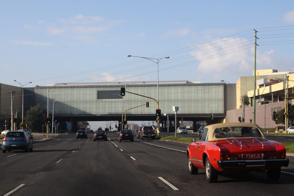 Shopping arcade at Westfield Southland, Cheltenham, Victoria. Stretching across the Nepean Highway, viewed while driving southbound towards Frankston